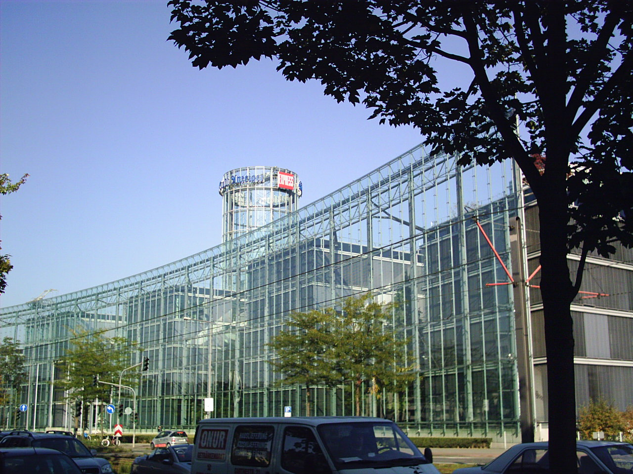 Neven DuMont House, Cologne, Germany check usage